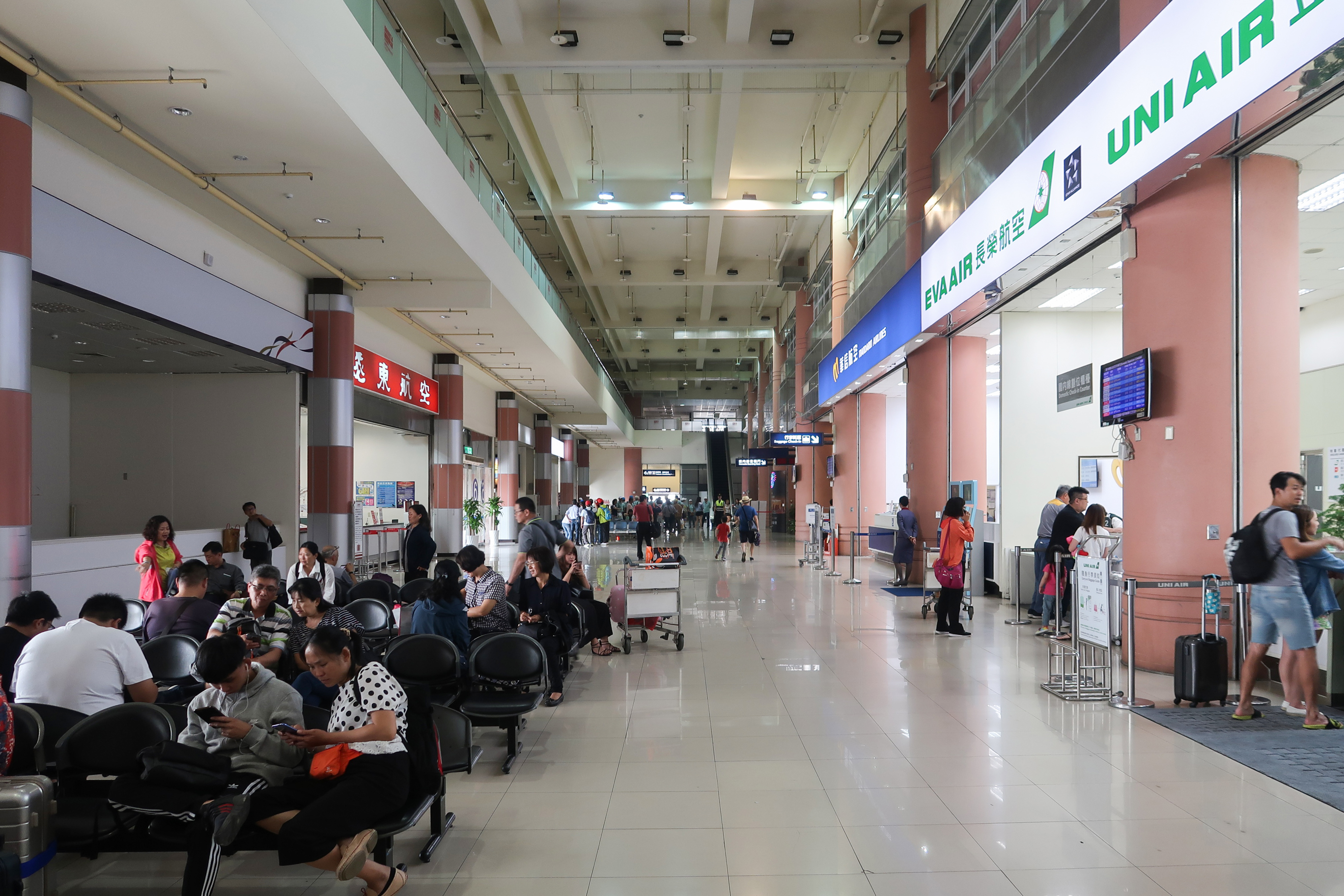 Taichung Airport Terminal 1 lobby